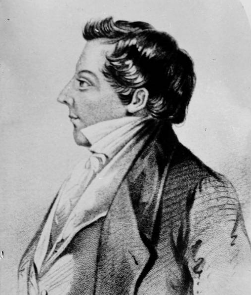 A copy of a drawing of the prophet Joseph Smith.